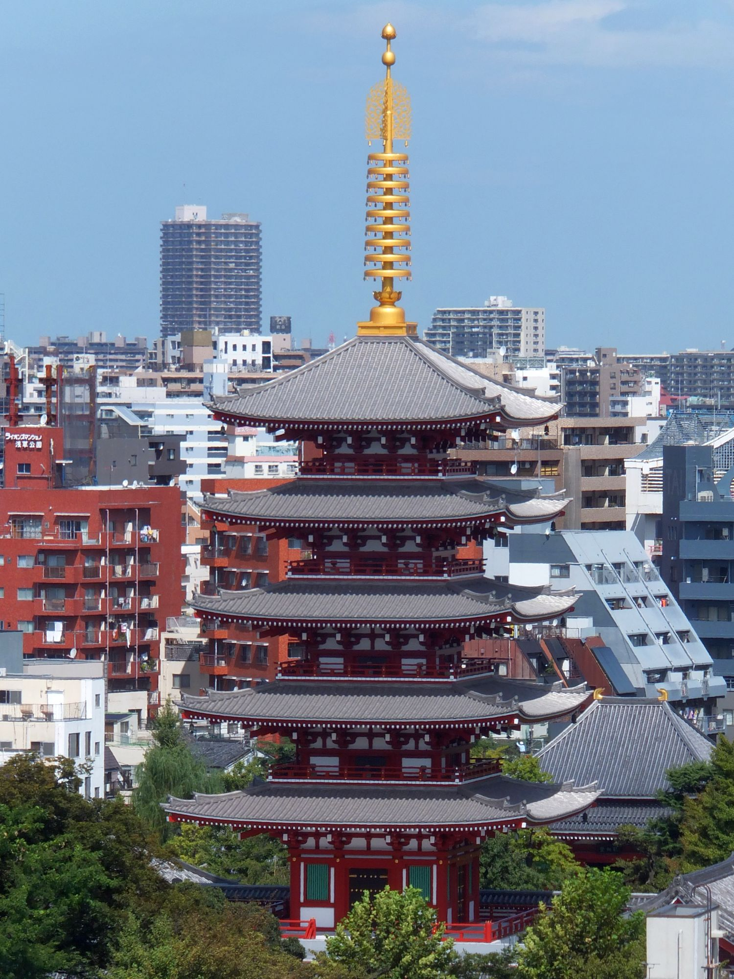 The Five-storied Pagoda at Sensō-ji temple in Asakusa